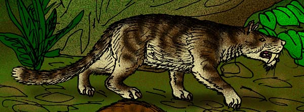 Reconstruction of the sabertoothed creodont Machaeroides eothen, of Eocene North America.